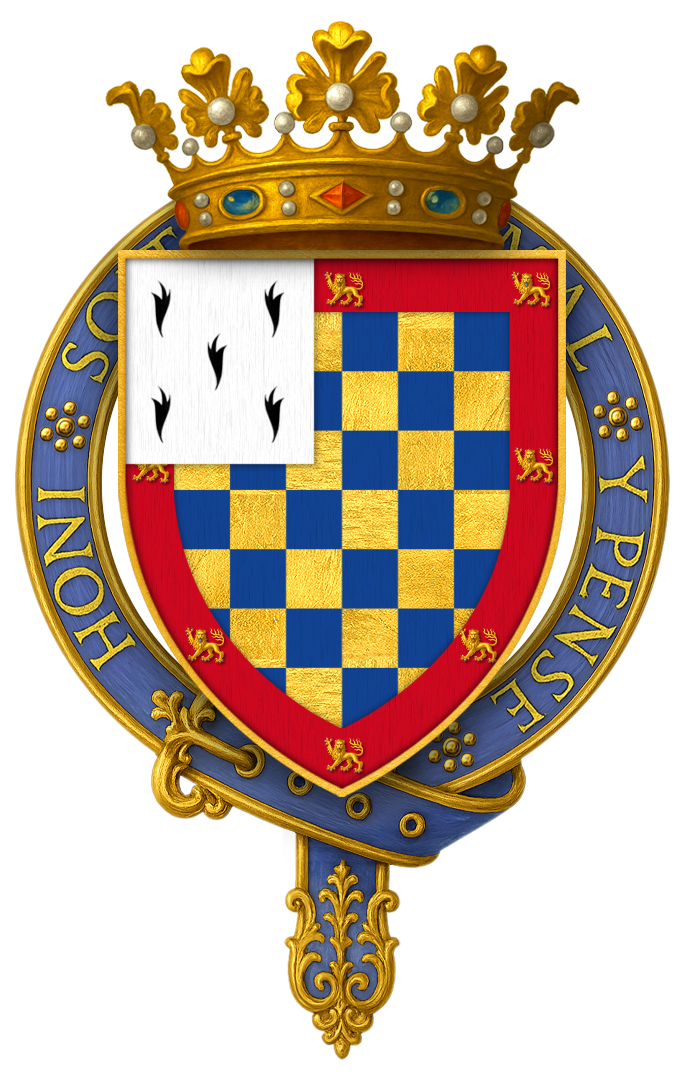 Coat of Arms of John V, Duke of Brittany, KG “ John IV. Duke of Britanny, Count of Montfort, and Earl of Richmond… Arms: Checque Or and Azure, a bordure Gules powdered with lioncels passant guardant of the first; a canton Ermine (for Brittany) ” BELTZ, George Frederick, Memorials of the Order of the Garter from Its Foundation to the Present Time, London: William Pickering, 1841.